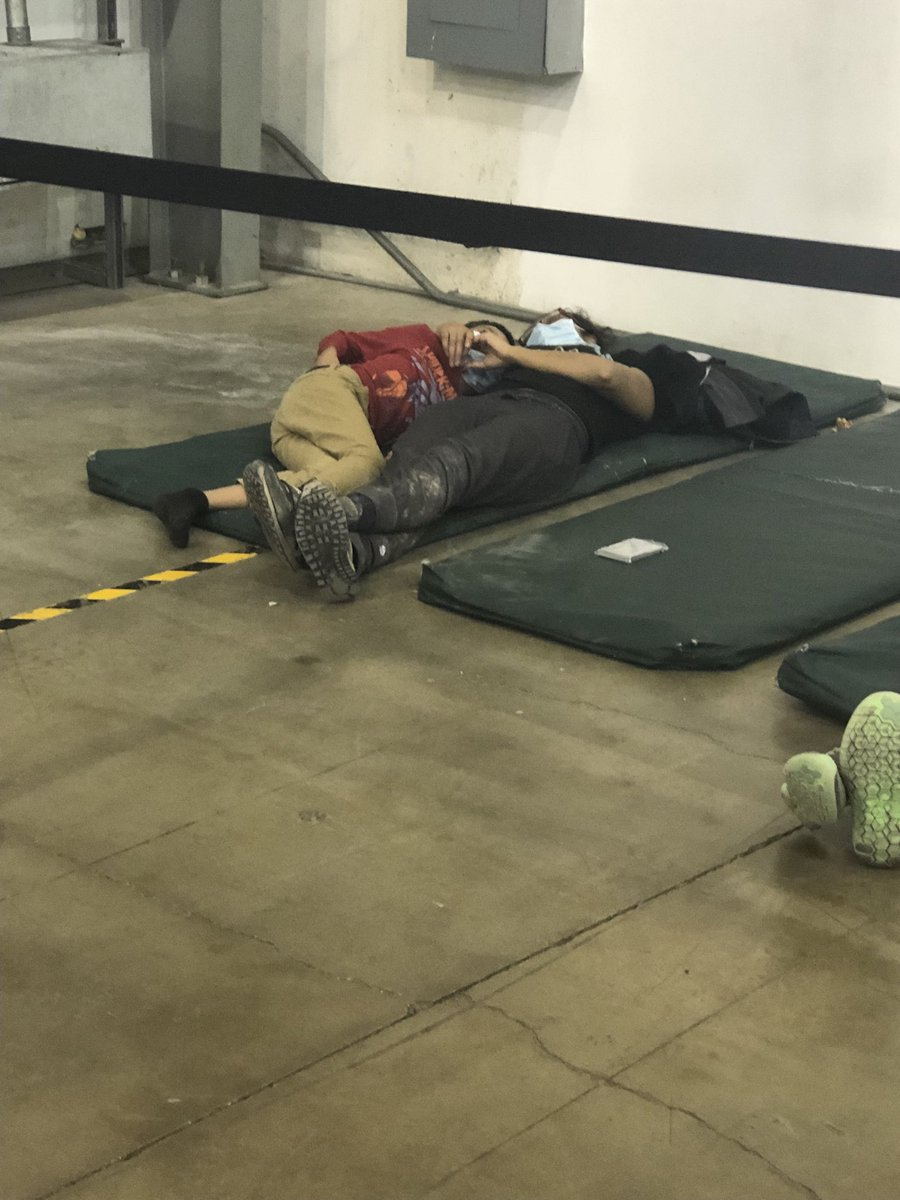 Migrants detained at the Ursula detention center in McAllen, Texas, the United States.